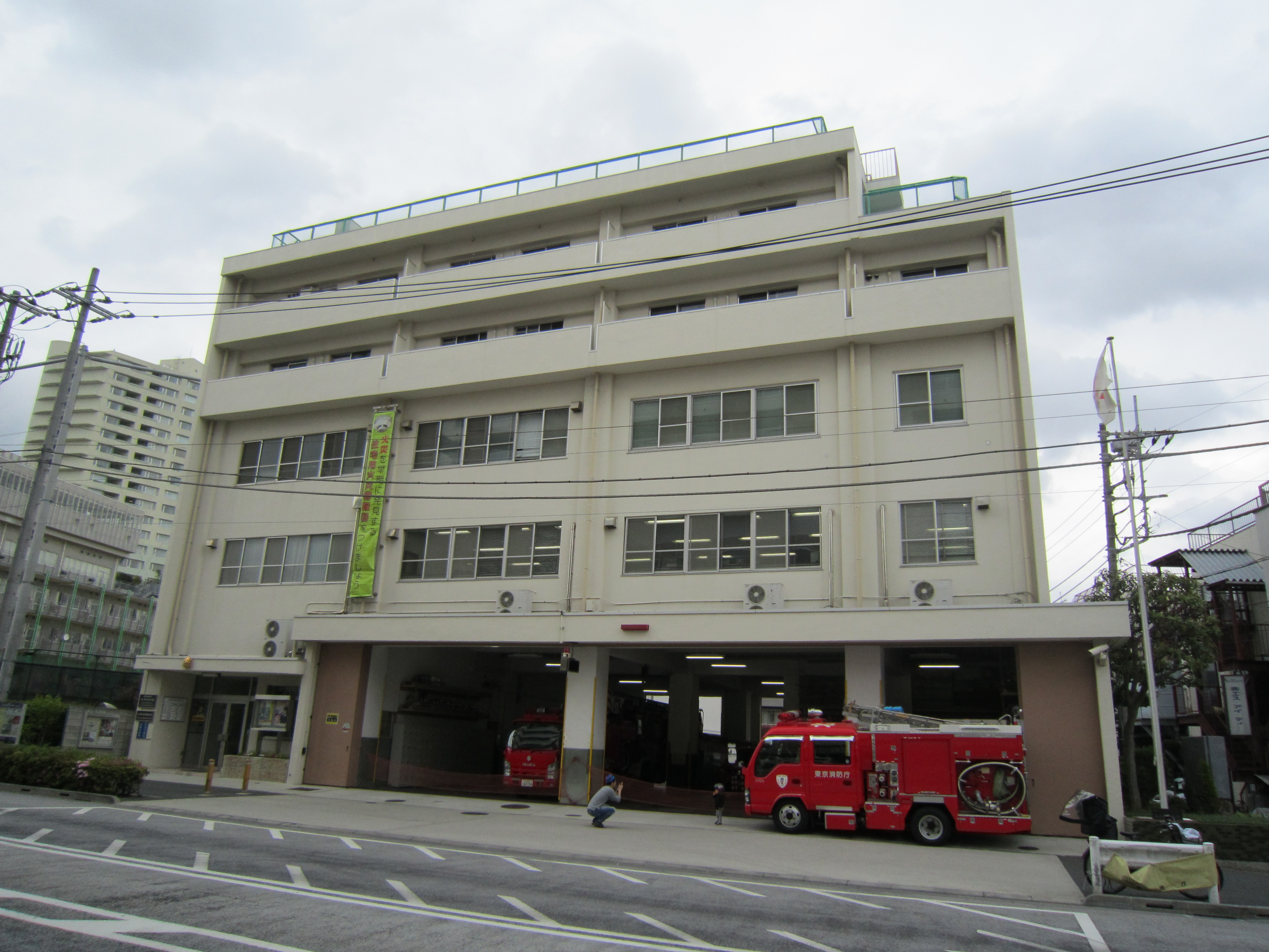 Ebara Fire Station of Shinagawa